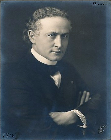 Harry Houdini